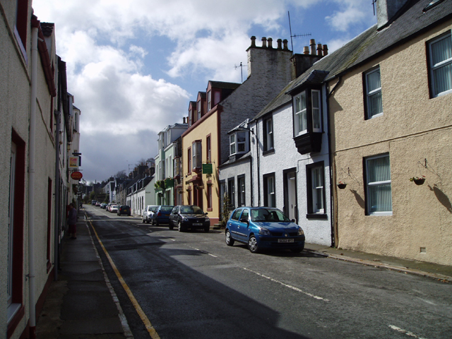 New Galloway